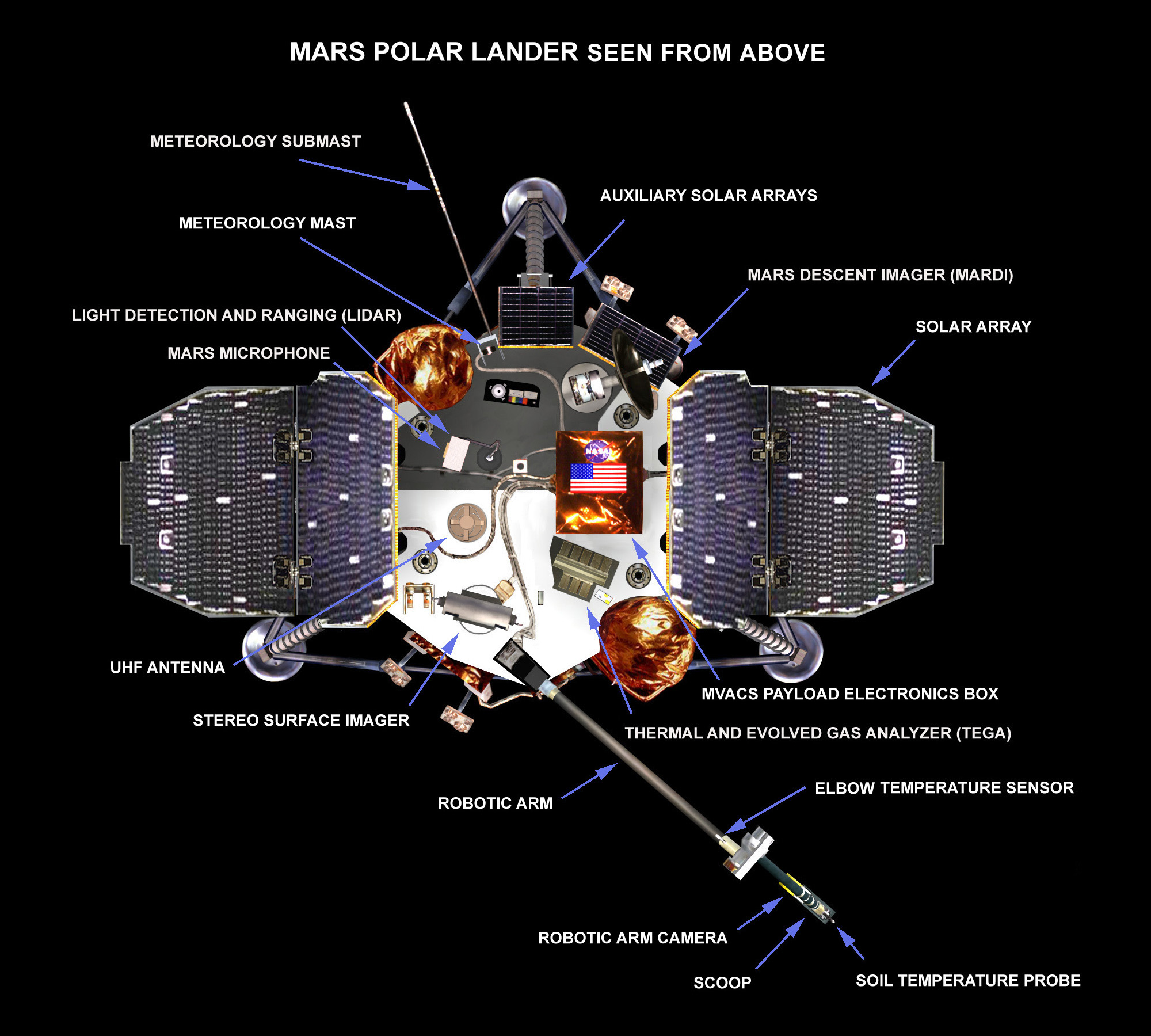 Annotated artist's rendering of the Mars Polar Lander (top view).